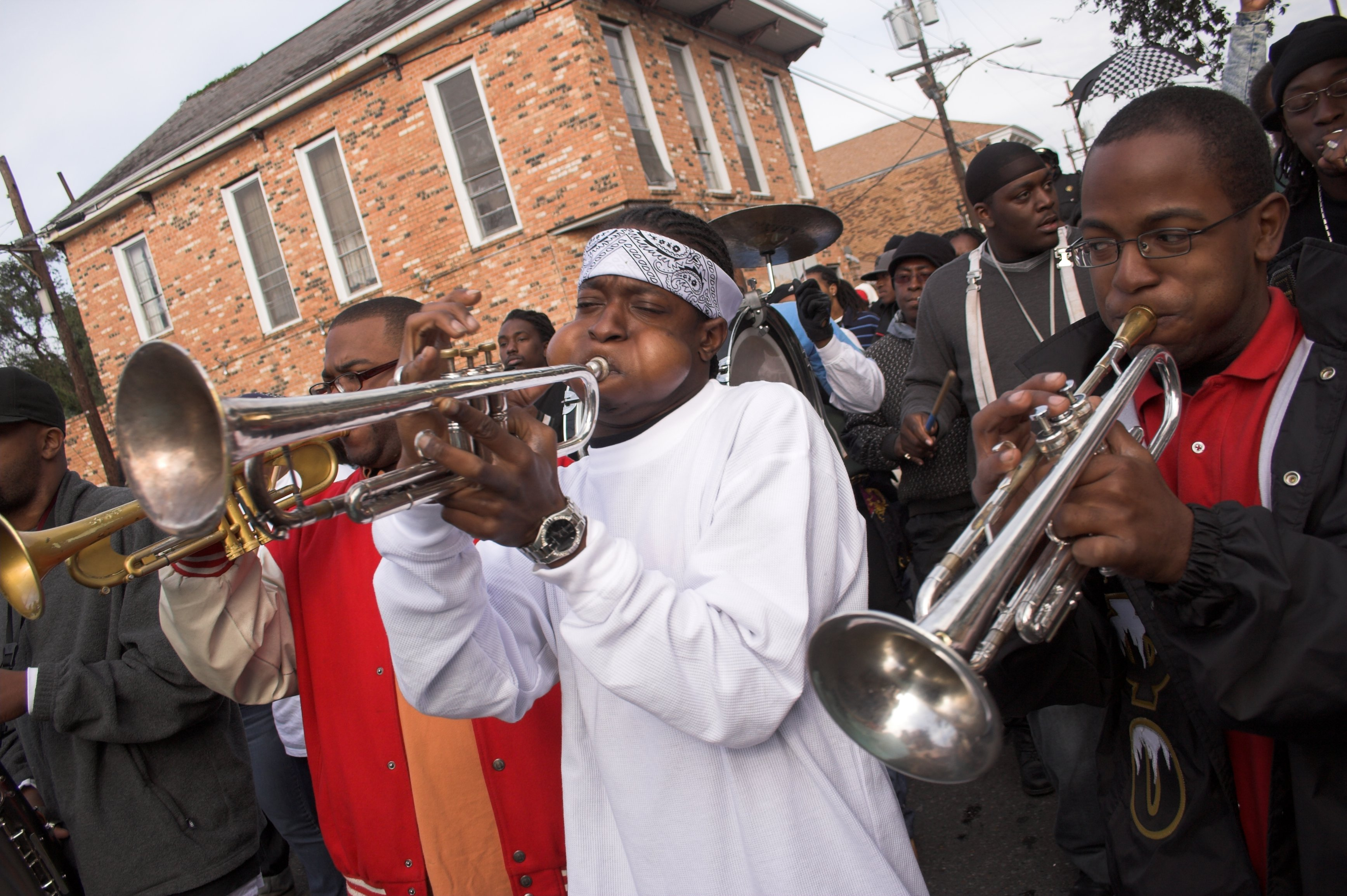 Lady Jetsetters Marching Club, Central City New Orleans. Stooges Brass Band.